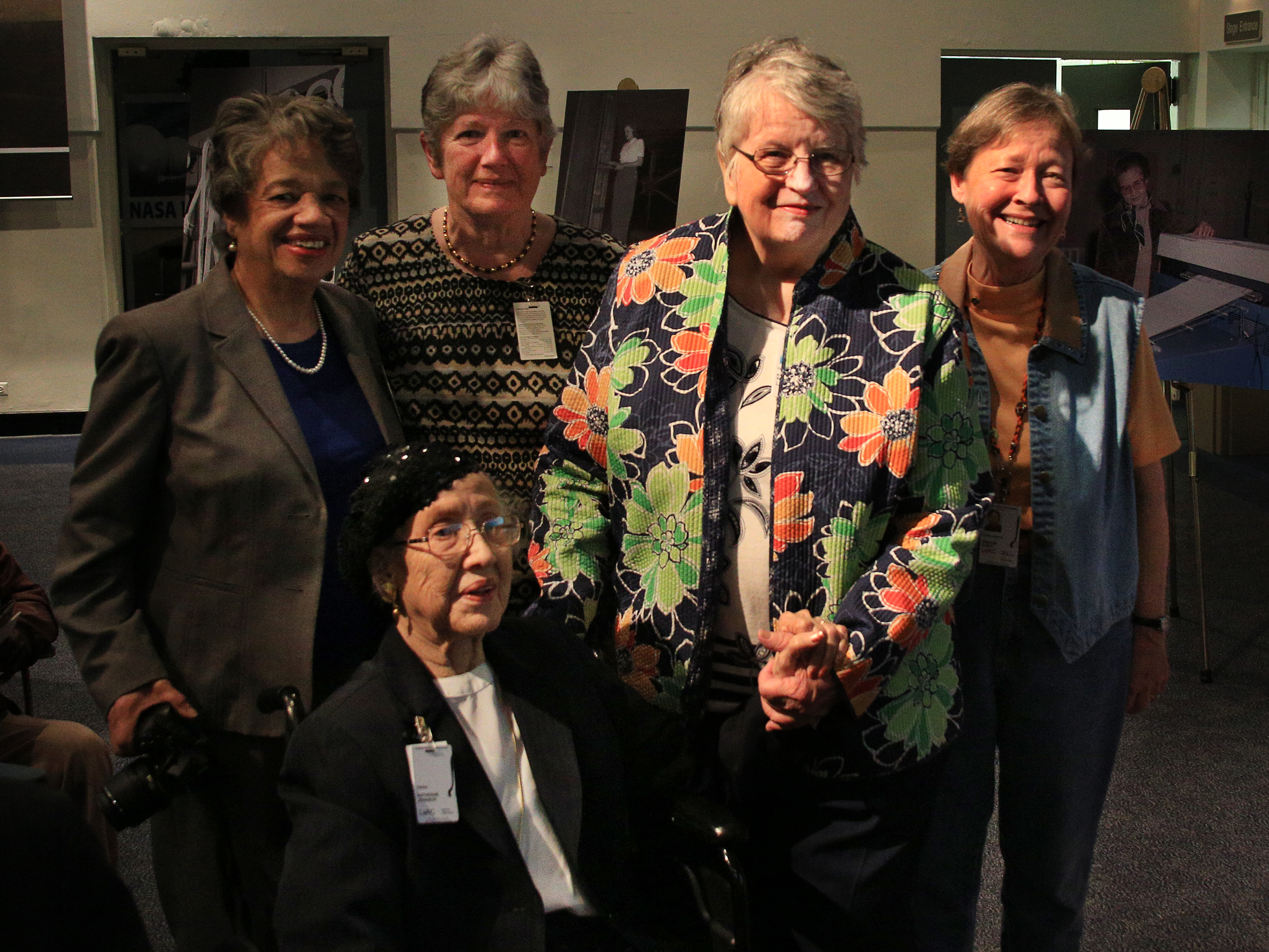 NASA human computers